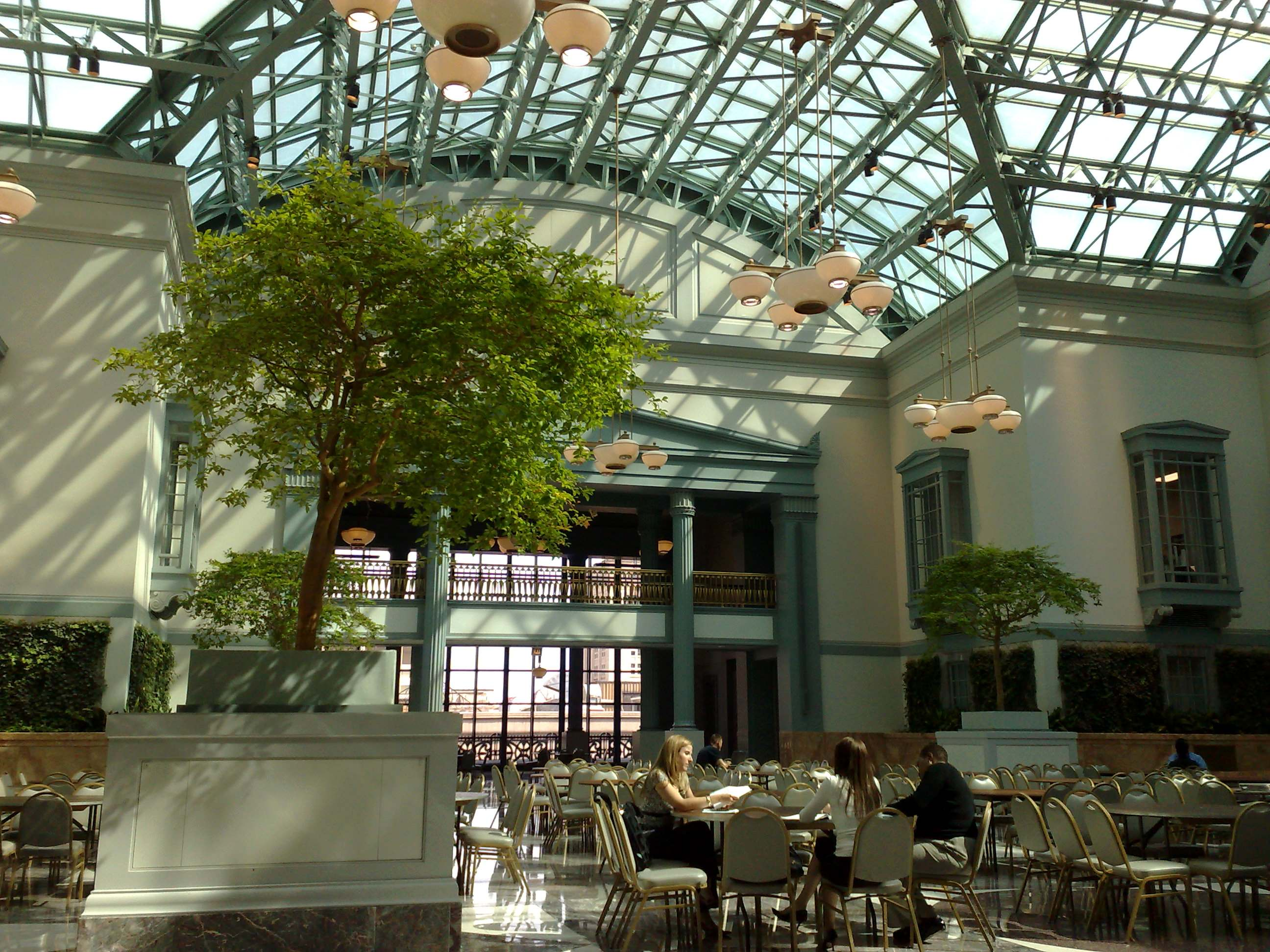 9th level of the Harold Washington Library (Chicago)